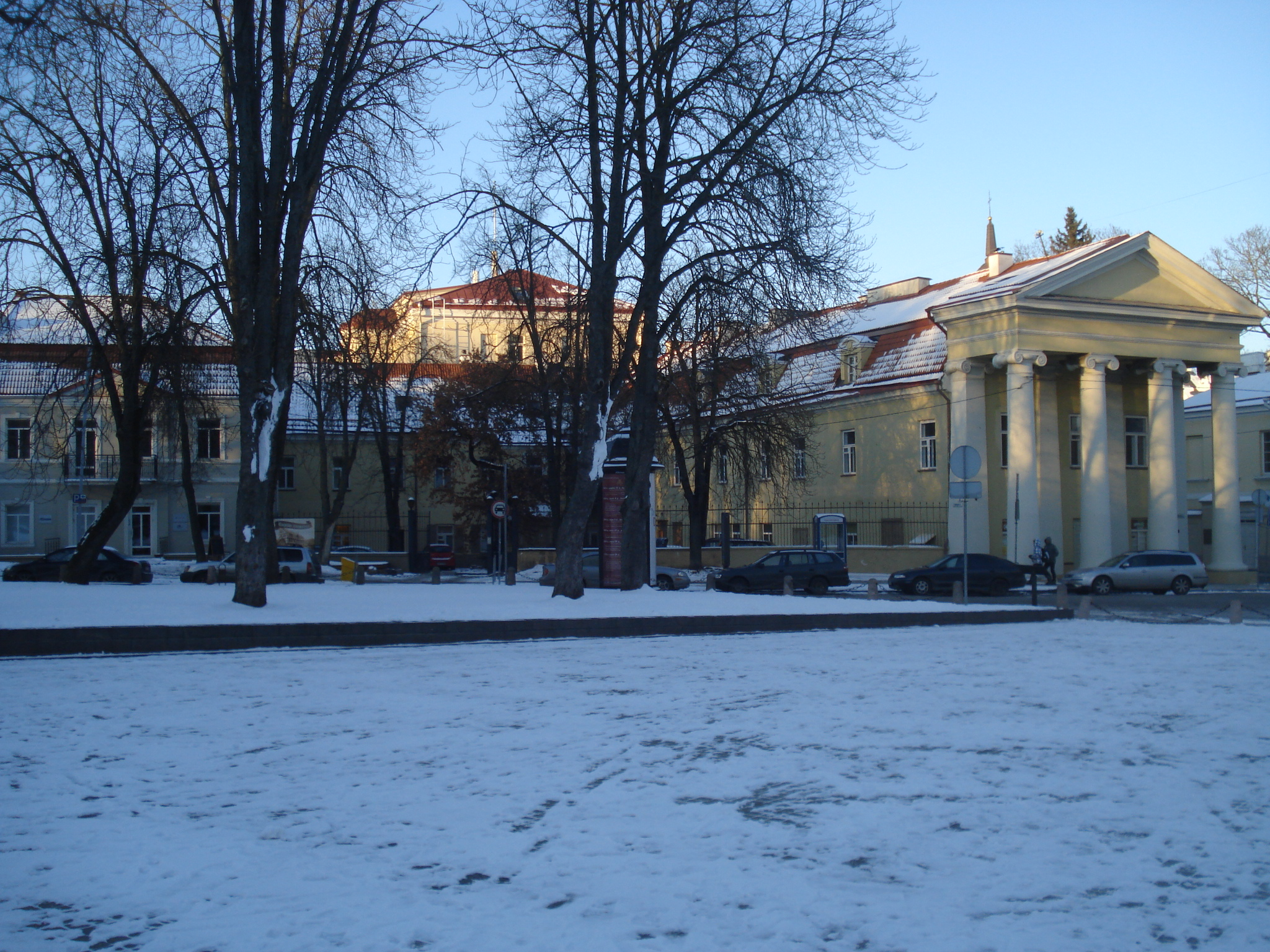 De Reus (Choiseul) Palace in Vilnius Old Town, Simonas Daukantas square 2